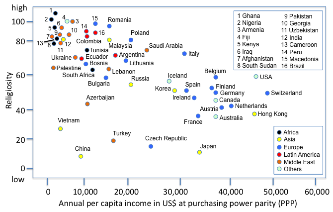 A correlation of religiosity and national income. Religiosity is defined here as the percentage of the population who self-describe themselves as a "religious person". Based on data from RedC Research & Marketing